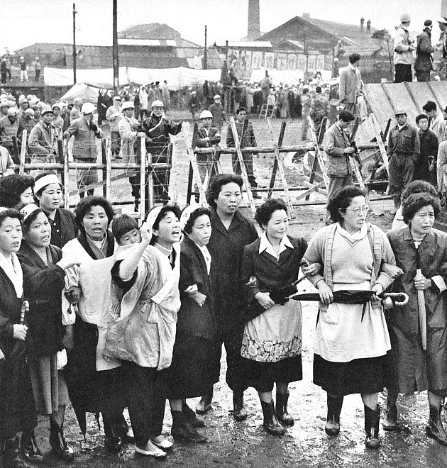 1959–60 Mitsui-Miike Labor Dispute